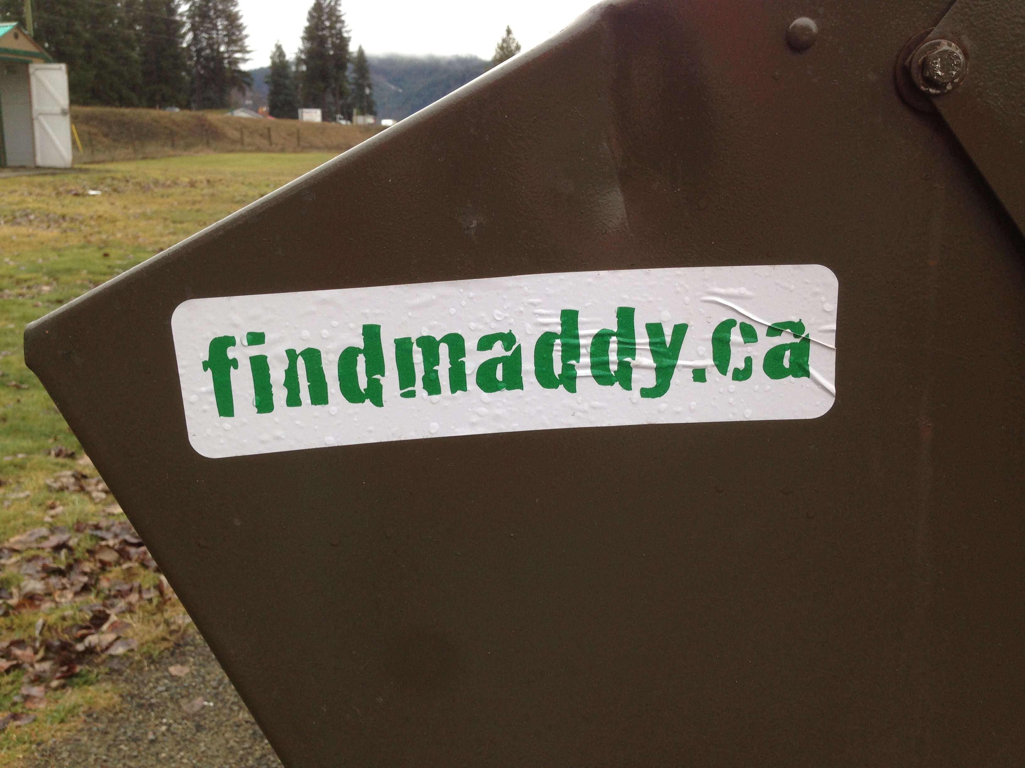 I had no idea what this referred to tip I got home and looked it up. Madison Scott has been missing since May 2011, her family still looks